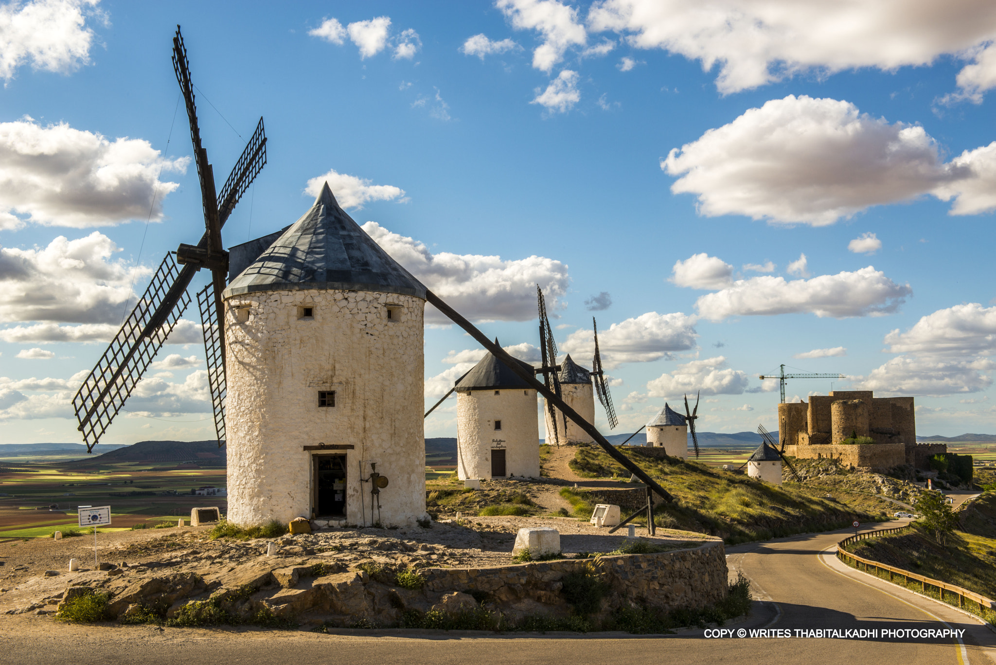 500px provided description: mill side on site street [#sky ,#city ,#travel ,#blue ,#clouds ,#europe ,#old ,#urban ,#view ,#green ,#mill ,#spain ,#cloud ,#vista ,#toledo ,#spanien ,#espania ,#hil ,#La Mancha ,#madred]